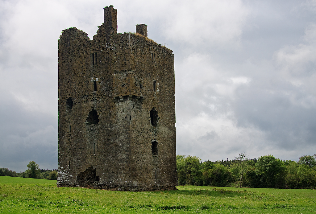 Castles of Leinster: Ballagh, Laois